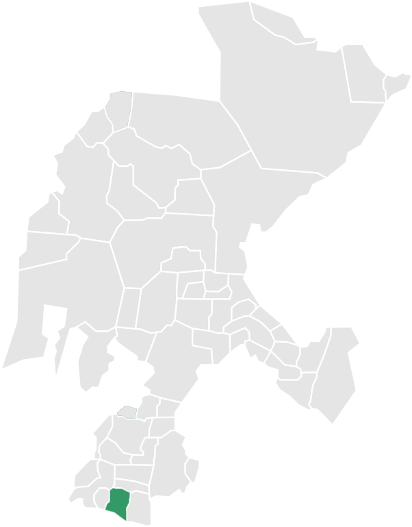 Map of the Municipality of Mezquital del Oro in Zacatecas, México.